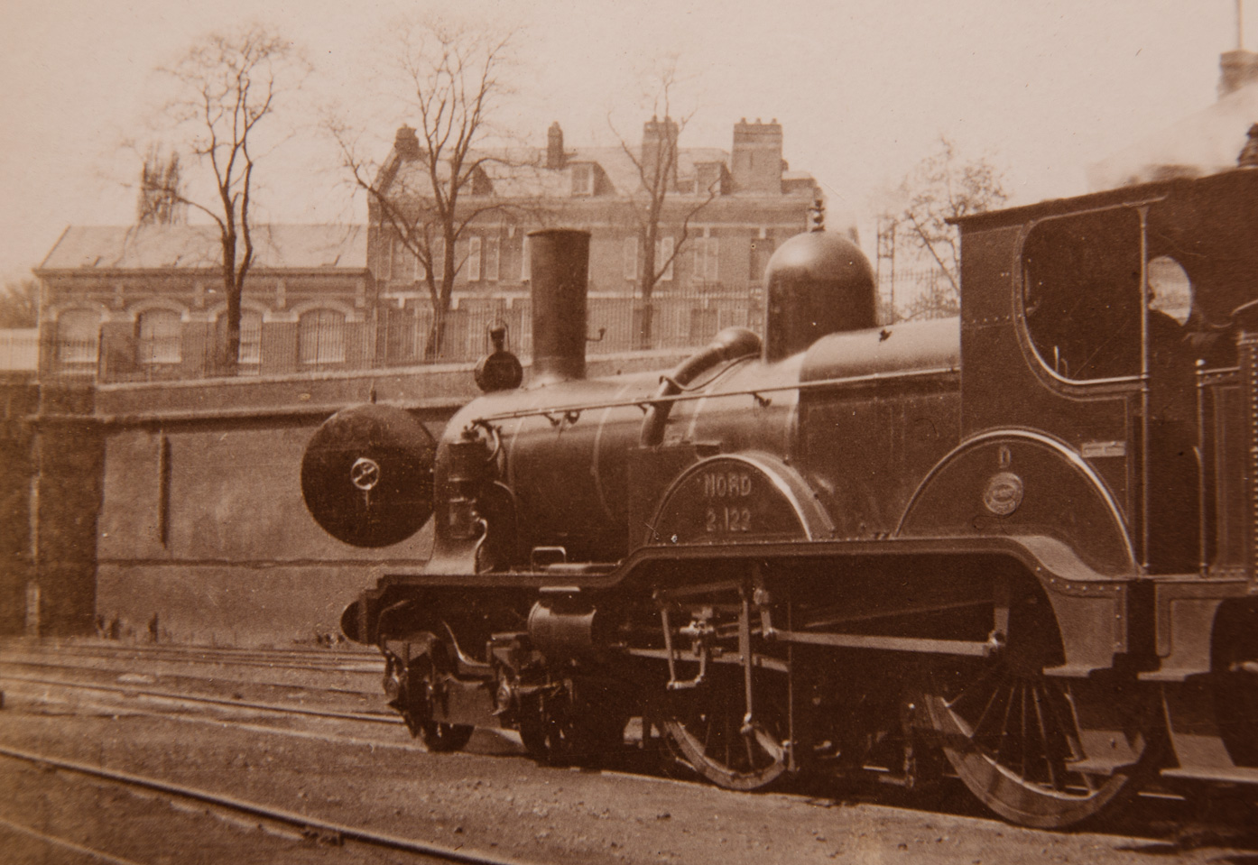 A French express, in a siding at an unknown location. Although all the other images in this album were taken in the UK, the shutters at the windows suggest this is France. One of 24 images from a unique and exceptional album dating from c. 1900 containing images of early steam locomotives. See the set description for further information. The original images are paper prints and measure c. 9cm x 6.5cm (3.5" x 2.5")